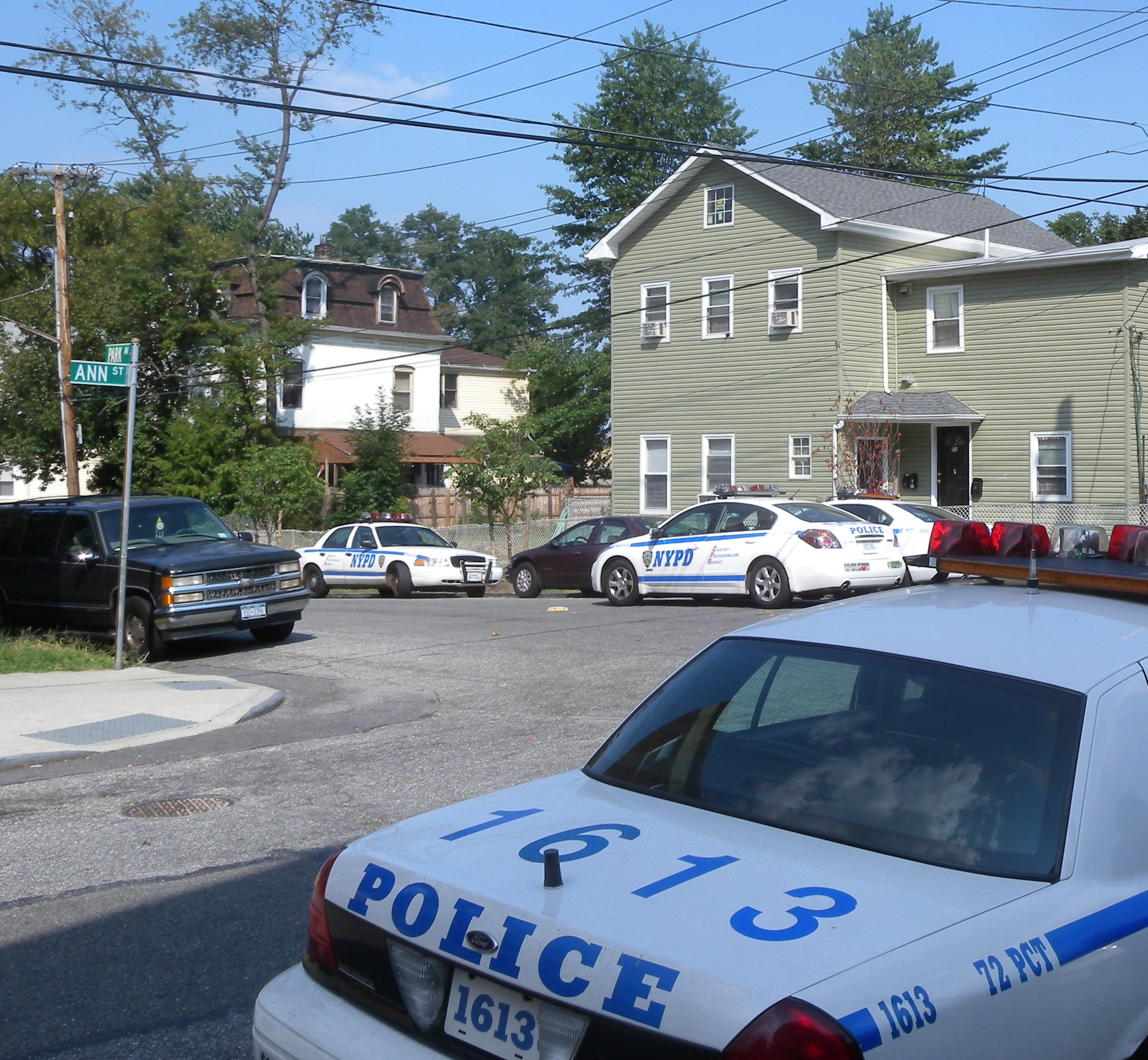 Looking east across Park Avenue and Ann Street at police cars gathered after incidents of ethnic violence.